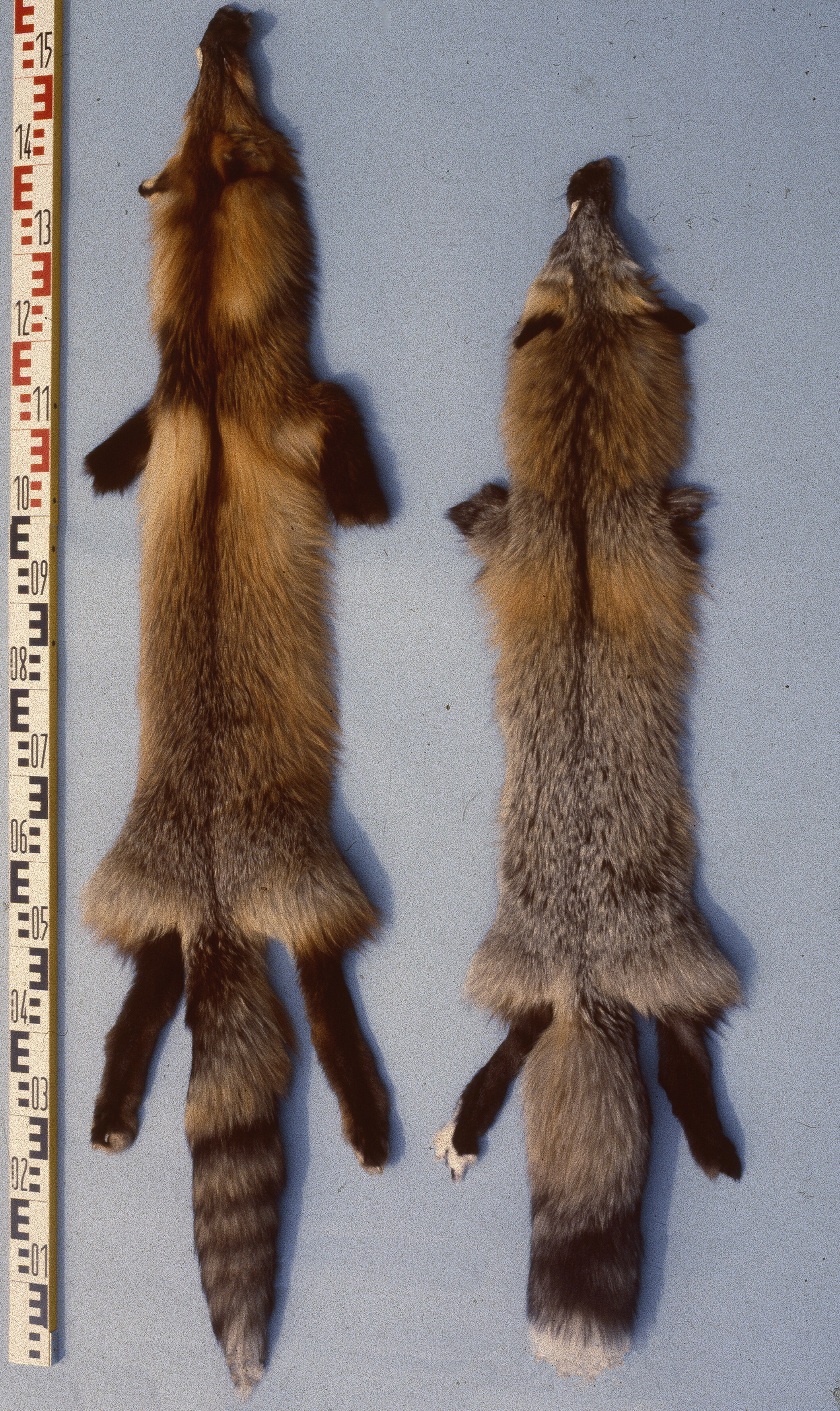 Cross fox fur skins (Vulpes vulpes), Norway and Canada. Fur skin collection, Bundes-Pelzfachschule, Frankfurt/Main, Germany